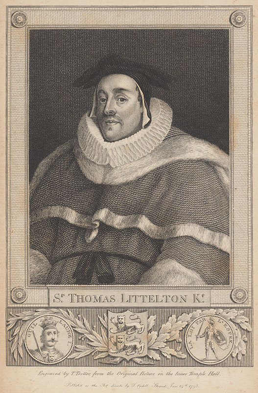 An engraving of Sir Thomas de Littleton (also known as Thomas Littleton or Lyttleton; c. 1407 – 23 August 1481), an English judge and legal writer.